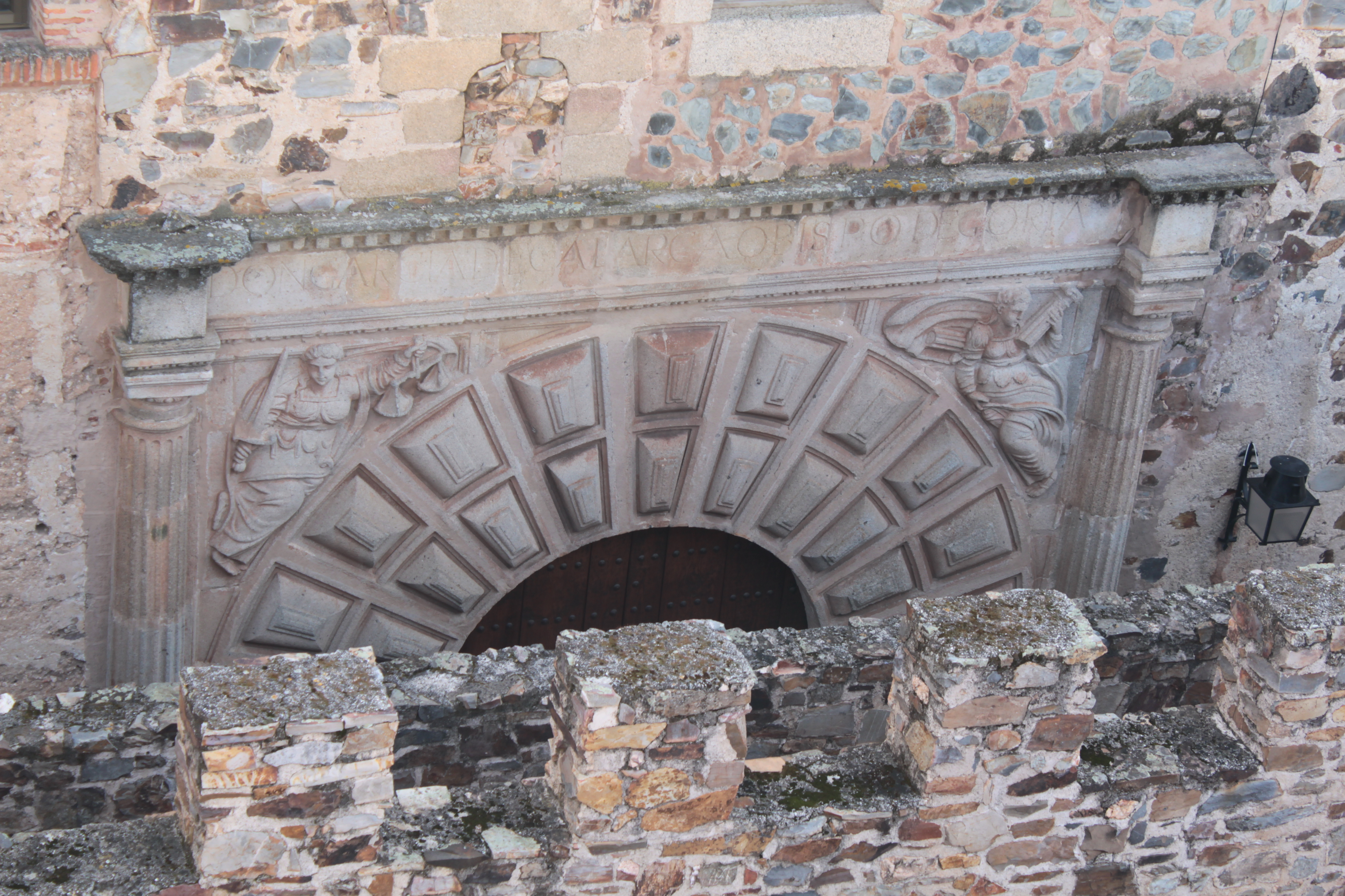 This picture is only a part of the façade. The point is to focus on the mistake made when it was rebuilt. The inscription reads «CALARÇA» and «GORIA» instead of «GALARÇA» and «CORIA».